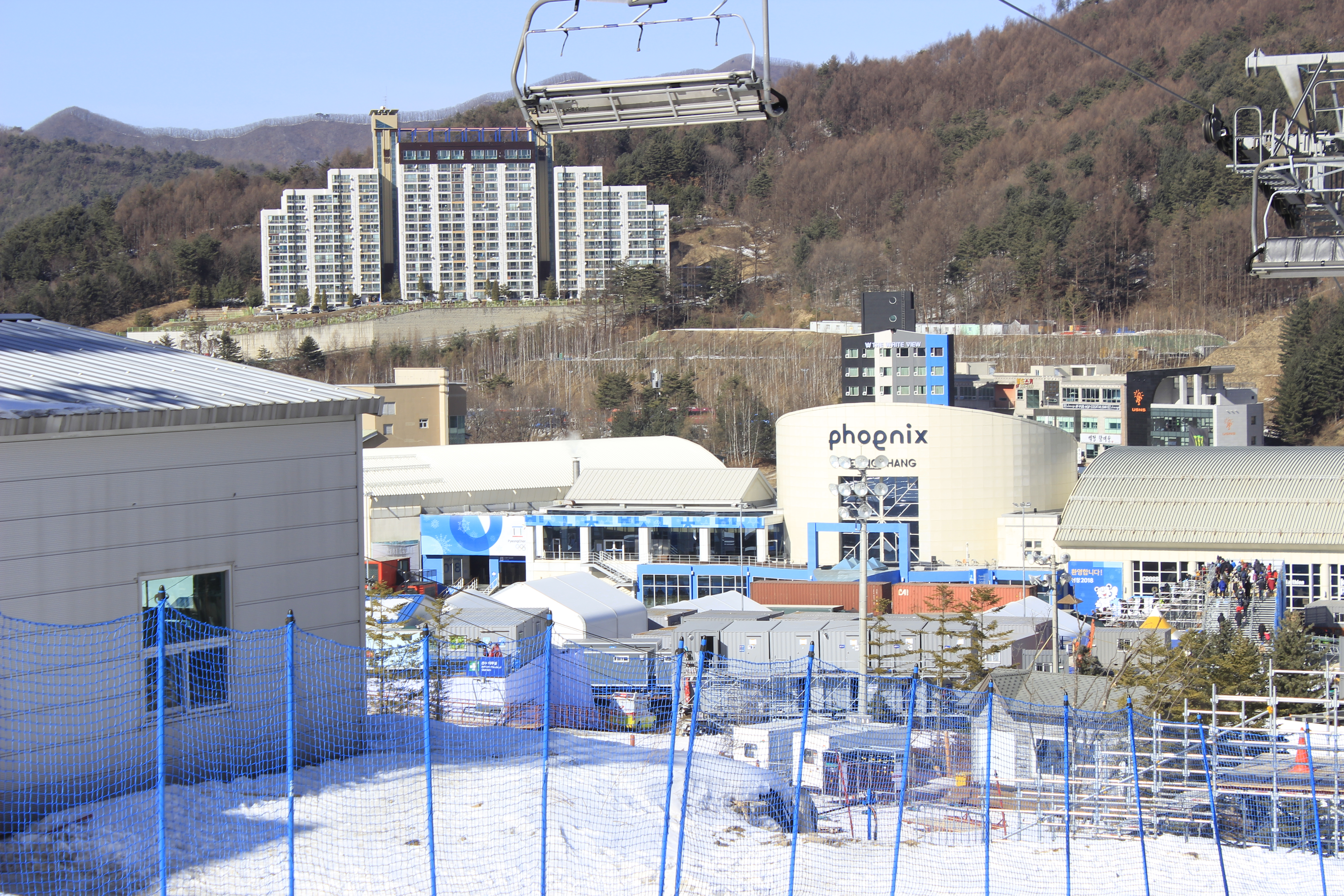 2018 Olympics Phoenix Pyeongchang